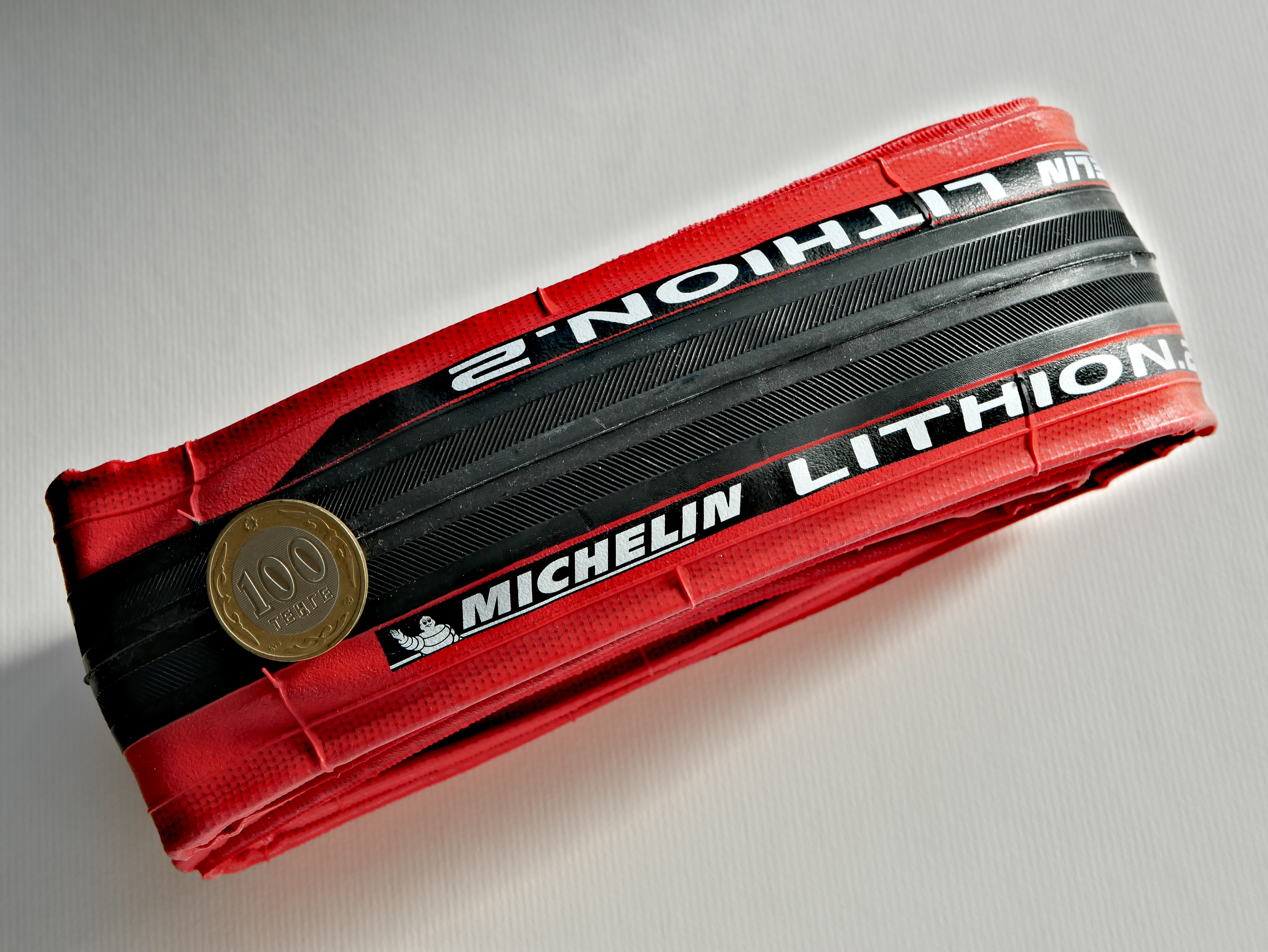 Michelin Lithion 2, road bicycle tire. 220 g, 3×60 tpi, 700×23c (23-622). Coin "100 tenge" diameter is 24.4 mm.